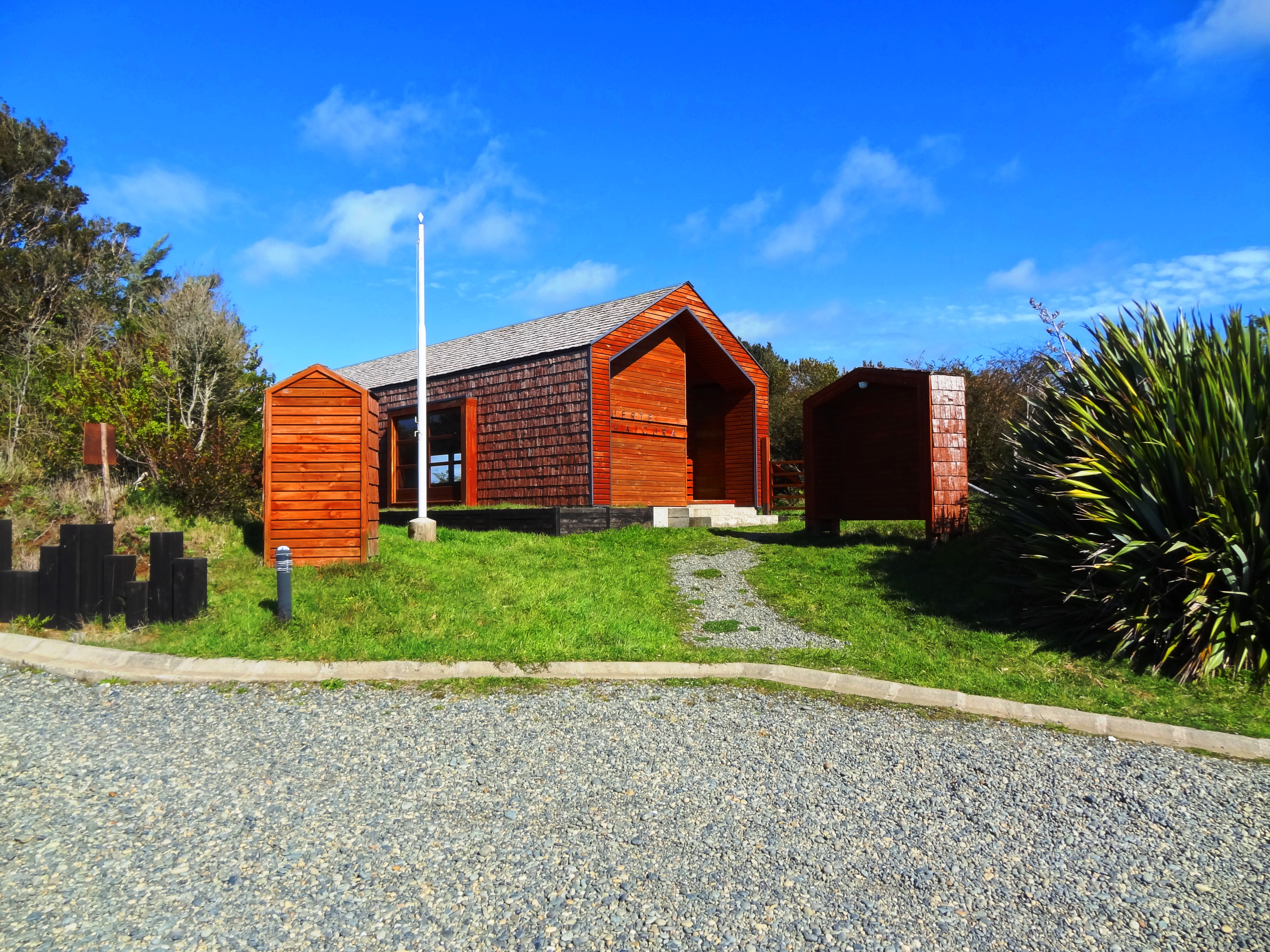 Strong Chaicura, Chiloe, Chile, South America This is a photo of a national monument in Chile: 701